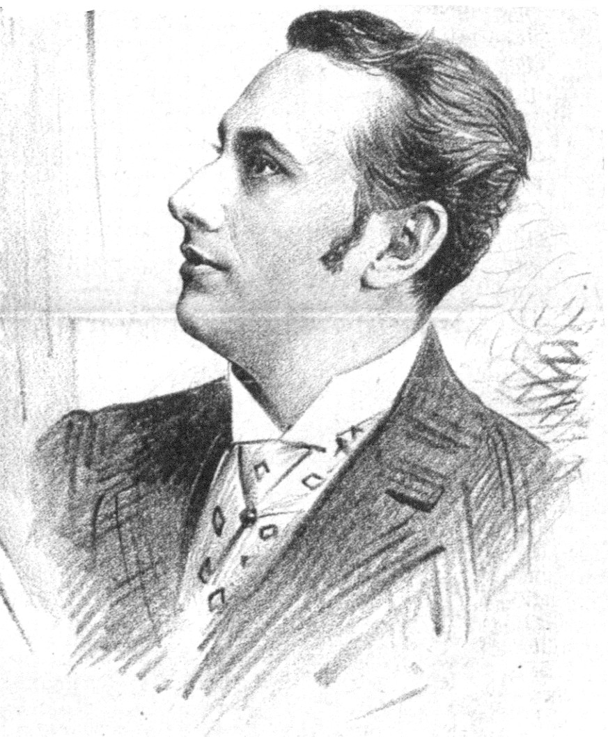 Portrait of Anton Jules (1860-??), Austrian actor.